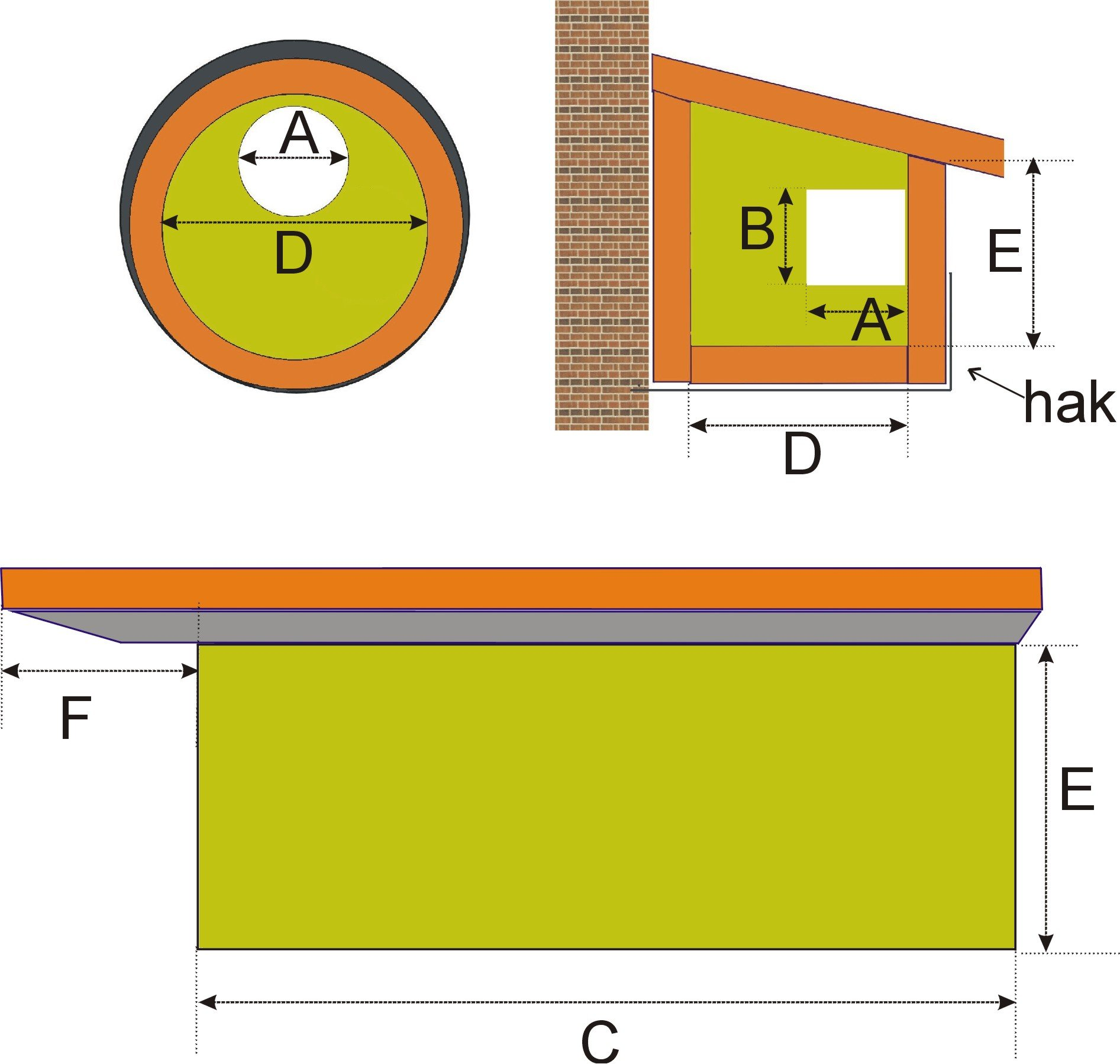 Nestbox for Tawny Owl Strix aluco and Little Owl Athene noctua